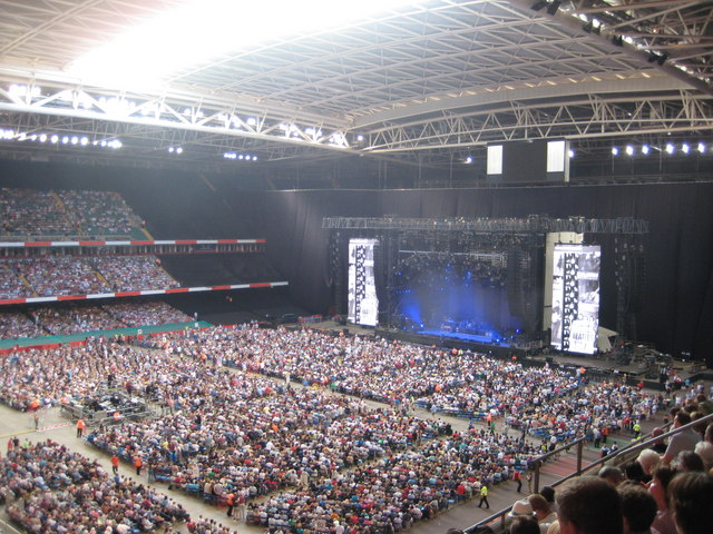 Inside the Millennium Stadium, near to Cardiff/Caerdydd, Great Britain. The roof of the Millennium Stadium is closing as the crowd await Paul McCartney.